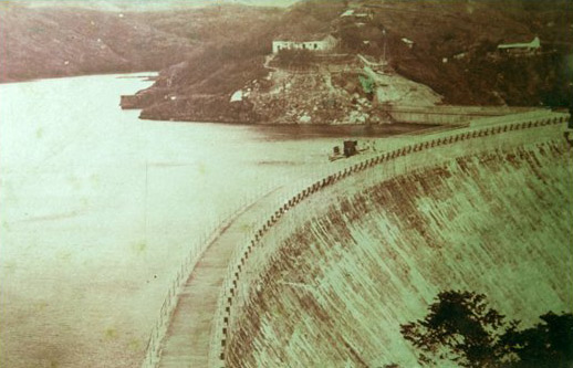 The Acarape do Meio resevoir's dam - 1922